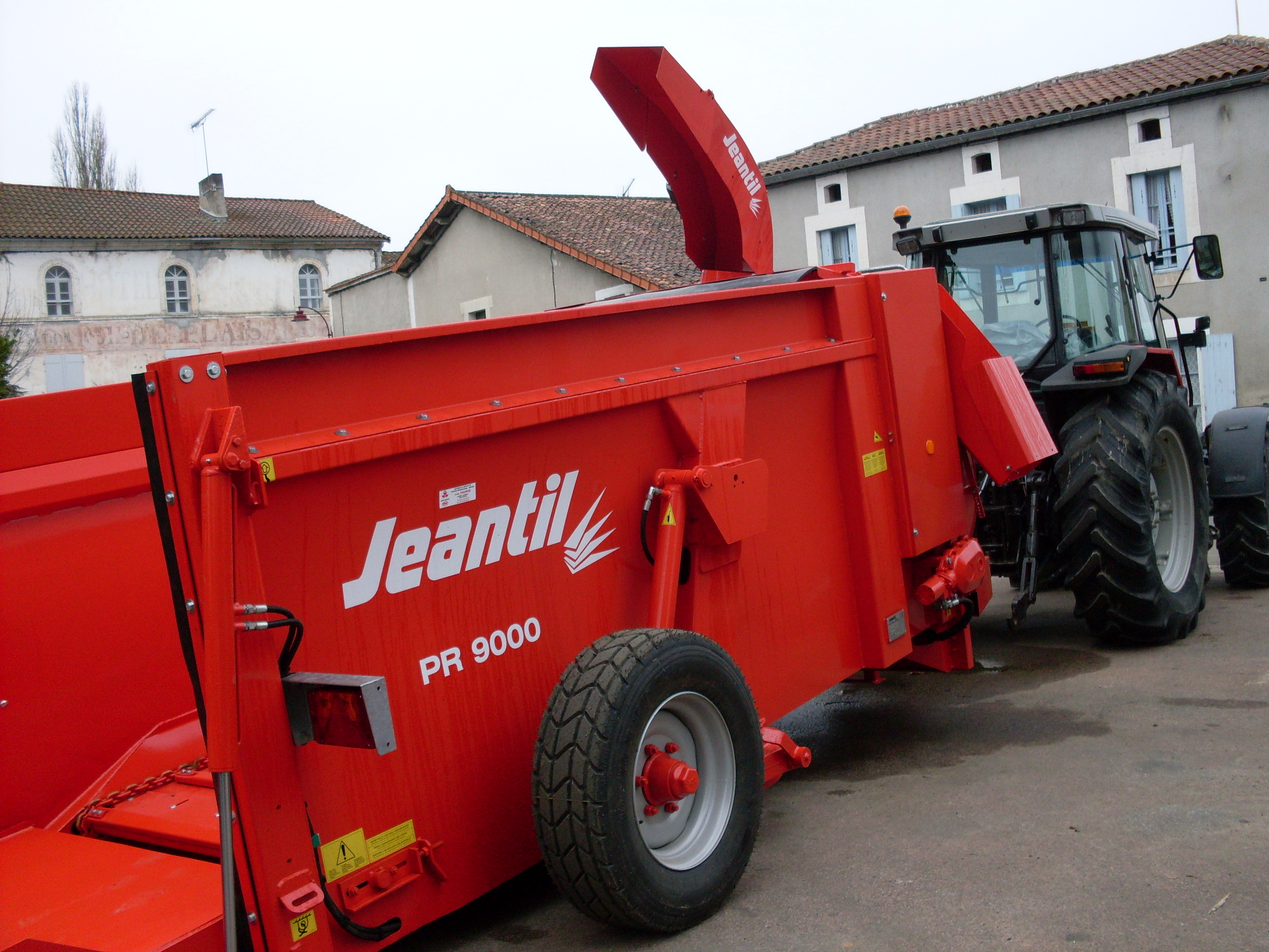 Straw blower with two shredders